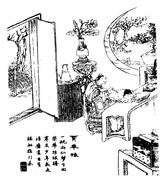 19th-century illustration of a scene from the short story "Jia Fengzhi" collected in Strange Tales from a Chinese Studio (1740).